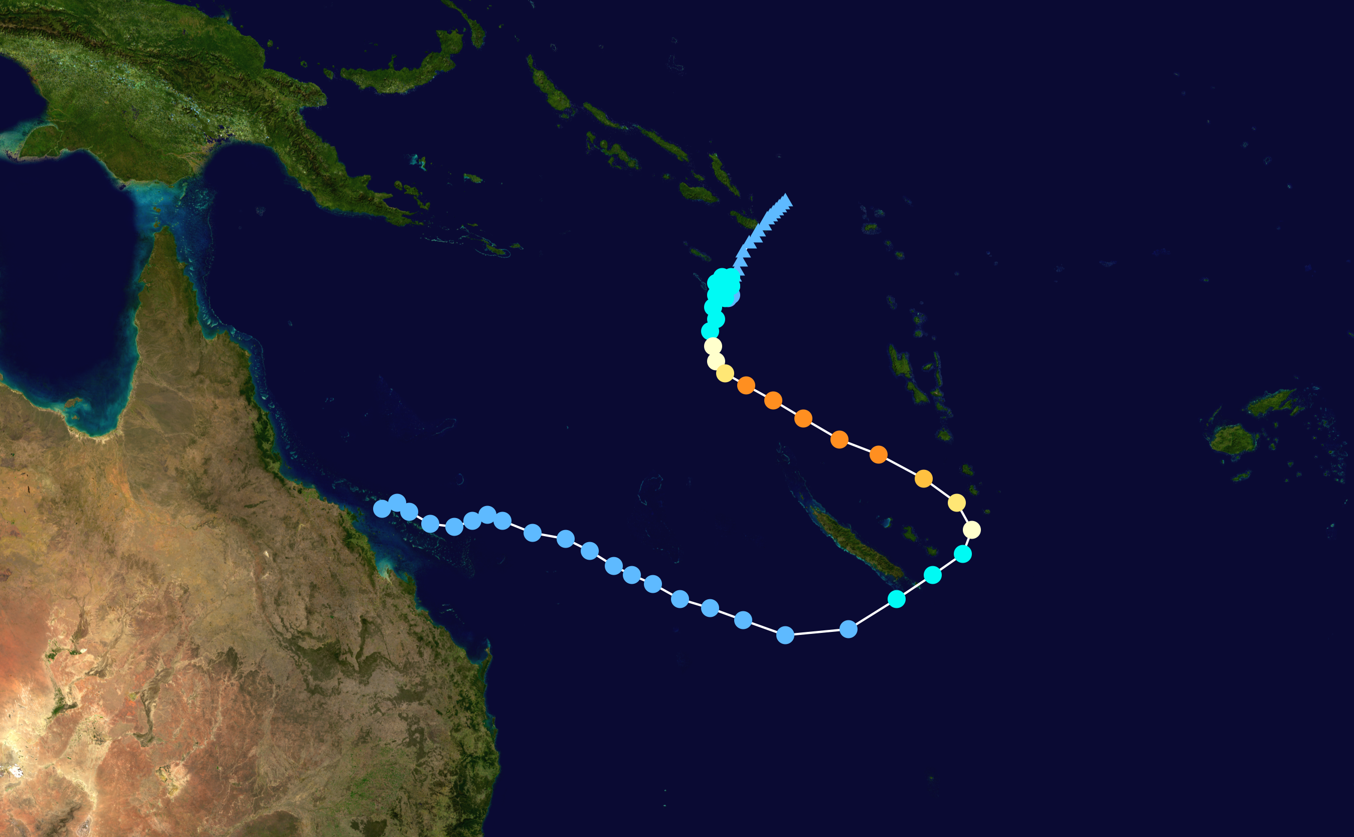 Cyclone Beni (2003) track. Uses the color scheme from the Saffir-Simpson Hurricane Scale.